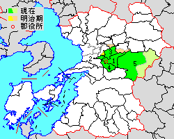 The location of Kamimashiki_District in Kumamoto Prefectuur, Japan